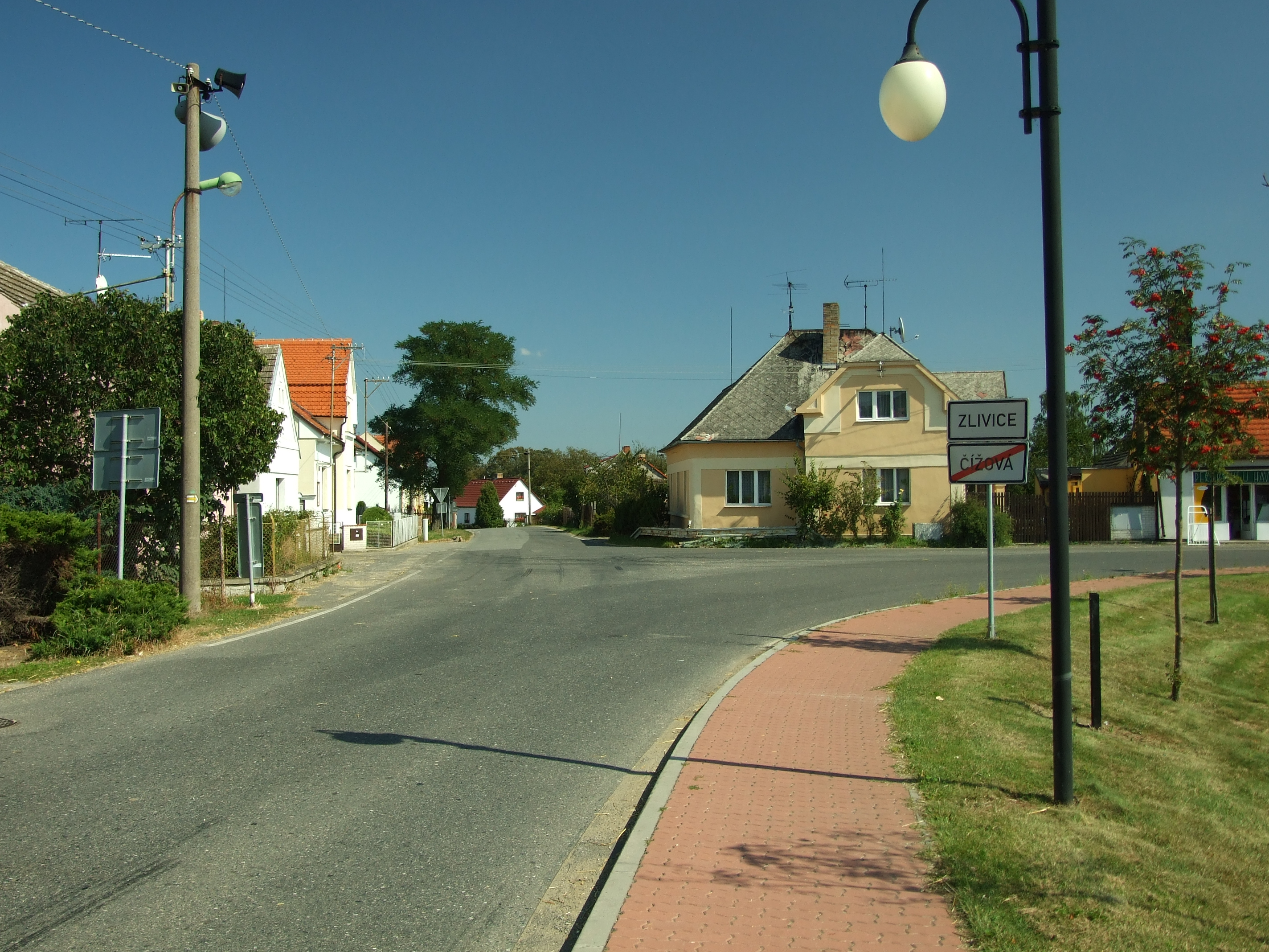 Čížová town - municipal part Zlivice, South Bohemian Region, CZhelp